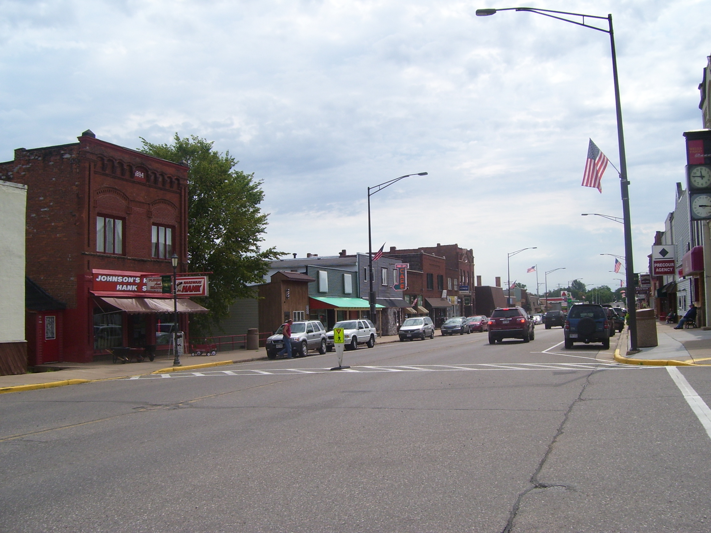 Photo of downtown Phillips, Wisconsin.